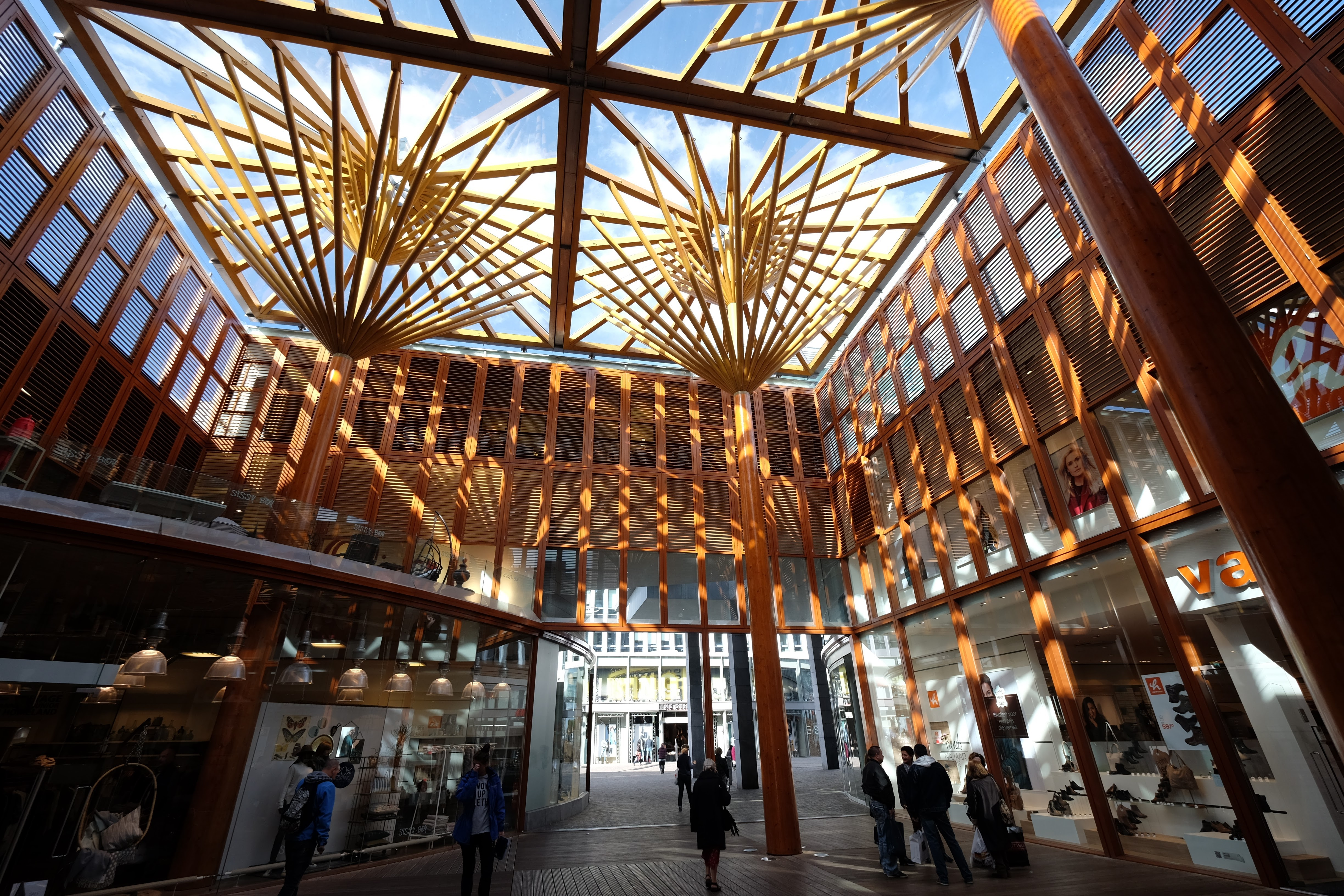 Shopping centre Mosae Forum in Maastricht, the Netherlands.